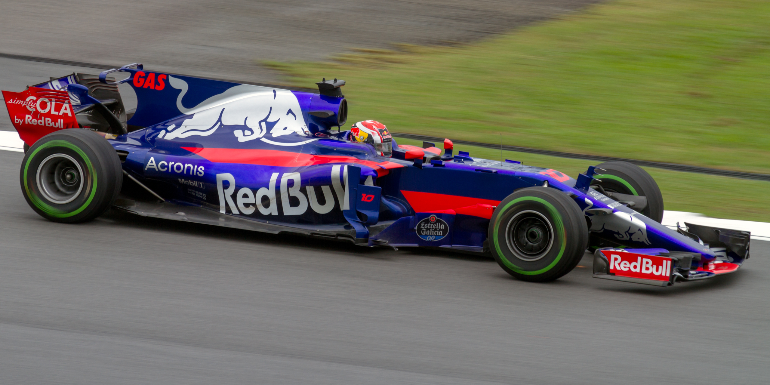 Formula One 2017 Rd.15 Malaysian GP: Pierre Gasly (Toro Rosso)